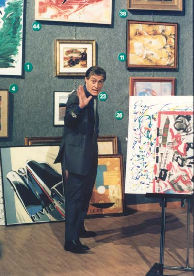 Corrado Guzzanti interpreting Dottor Armà